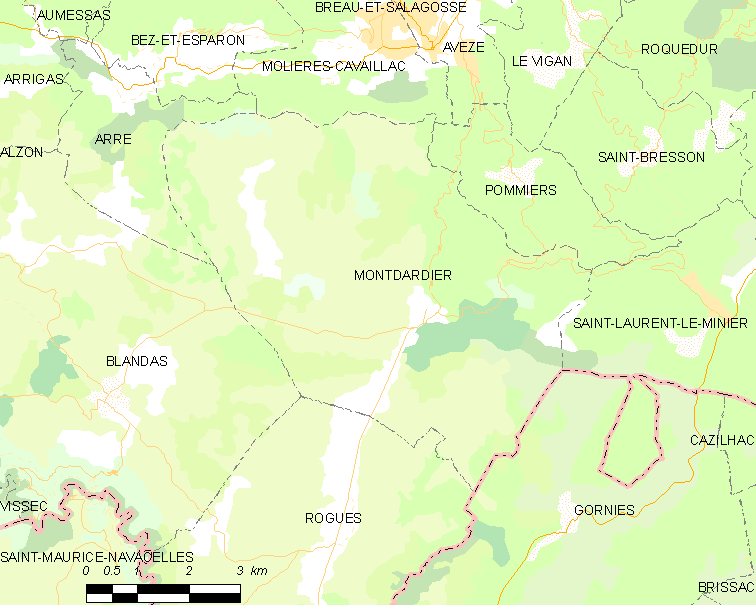 Map commune FR insee code 30176.png - Montdardier